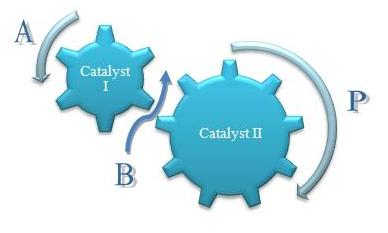 general scheme of concurrent tandem catalysis